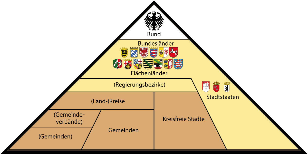 Administrative system of Germany